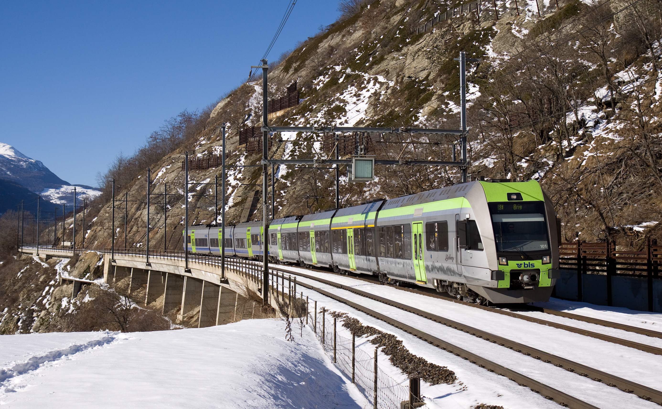 BLS RABe 535 "Lötschberger" (named after the Lötschberg line, which is/will be served by these trains) on the southern Lötschberg ramp between Lalden and Brig. The train is running in multiple with a slightly older BLS RABe 525 "NINA", which is one section shorter and less comfortable since it's built for commuter traffic. The NINA are temporarily used here because Bombardier failed to deliver the RABe 535 on time.